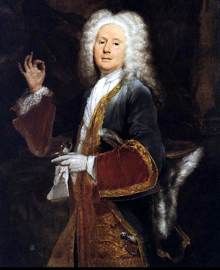 Portrait of the English actor Colley Cibber as Lord Foppington from the Restoration Comedy The Relapse (1696)